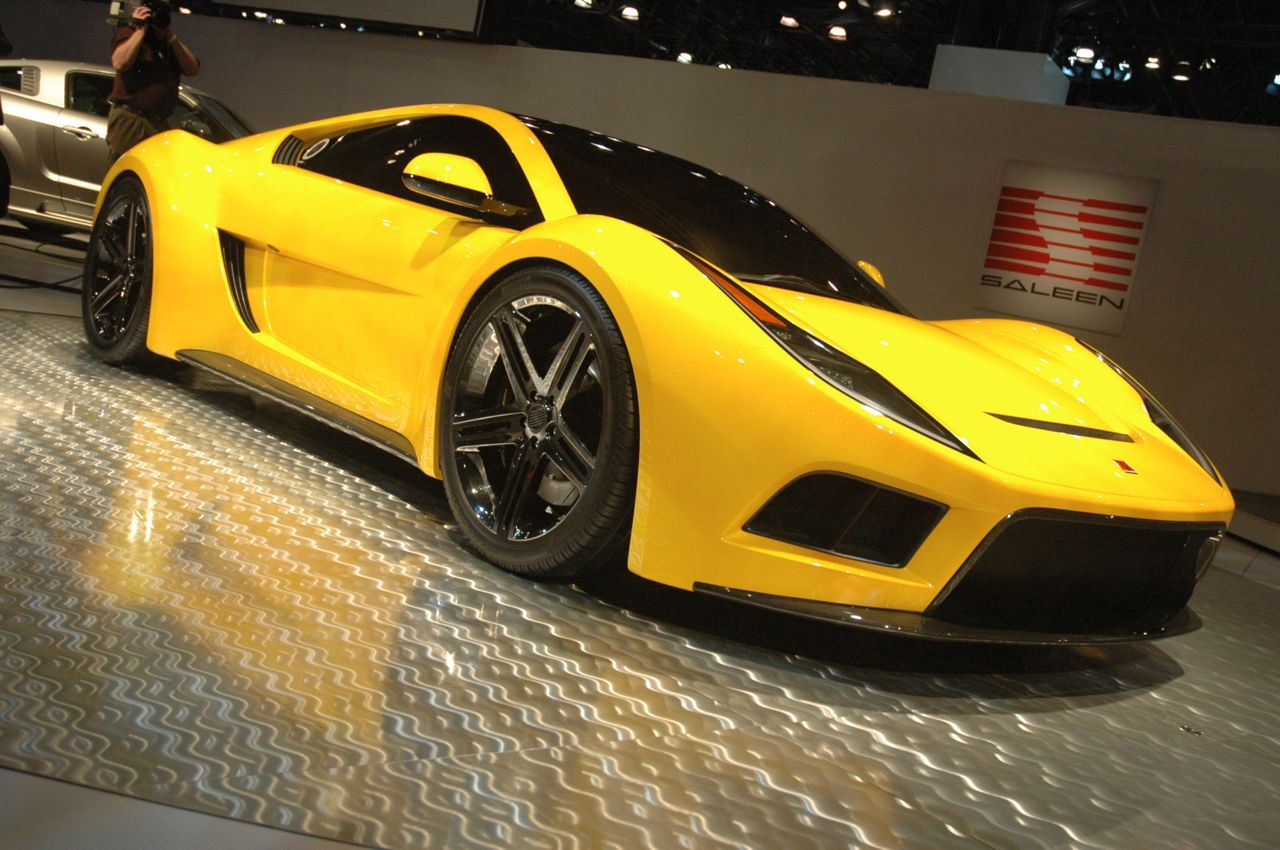 a picture of the saleen raptor